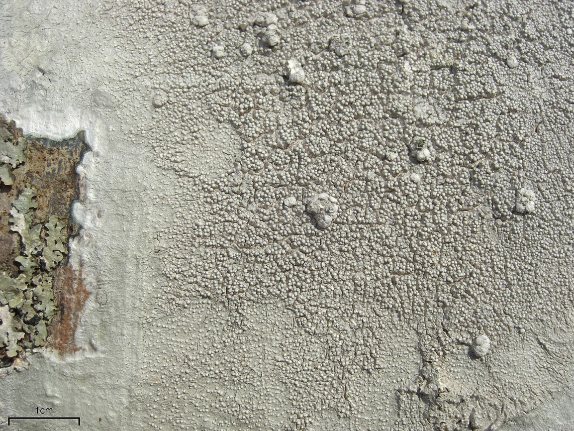 Pertusaria trachythallina 20100320.13 US, NC, Smoky Mountains, Elkmont